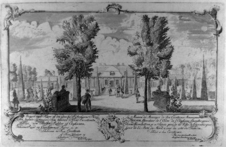 Blaagaard Manor (Blågård Slot) outside Copenhagen.